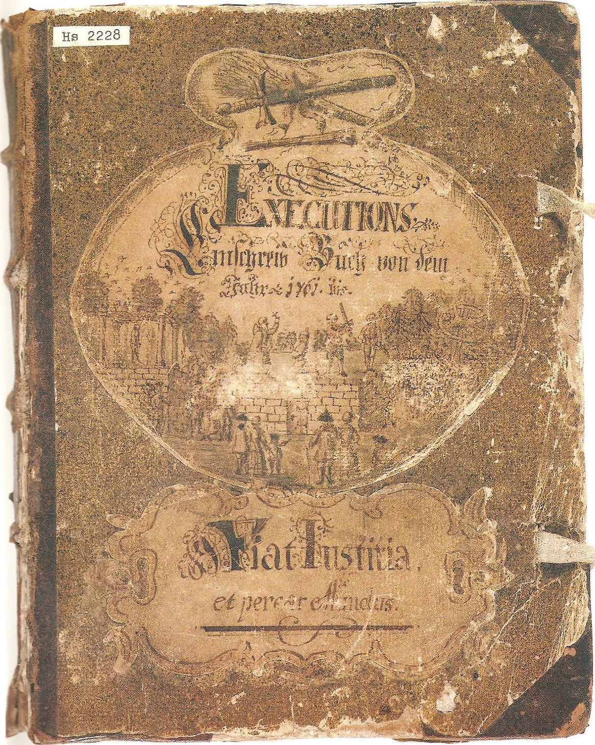 Binding Covers